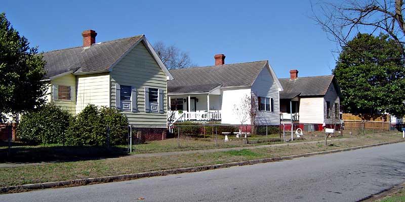 Mill houses, Graniteville South Carolina. Photograph 2007 by P J Hughes